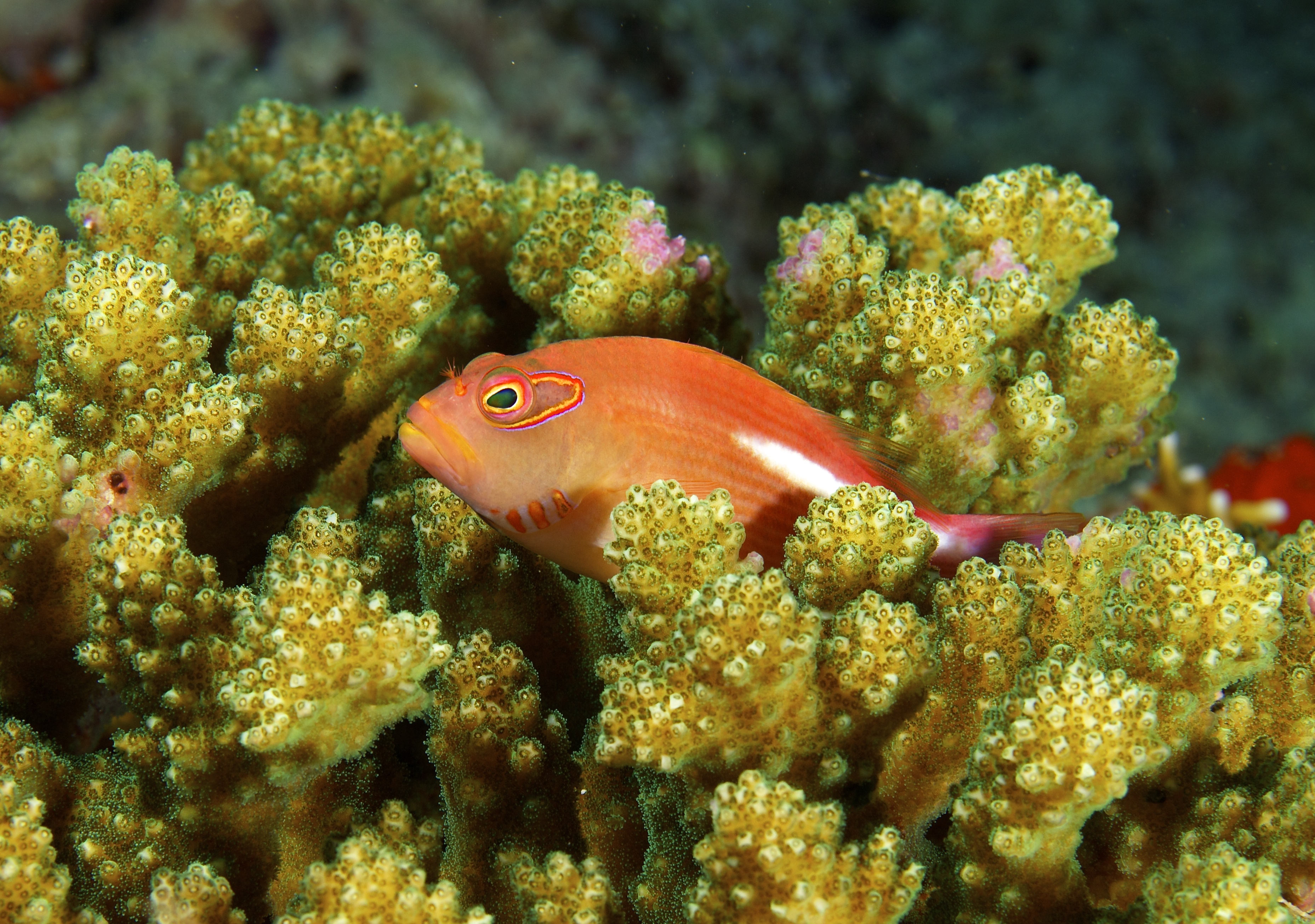 Paracirrhites arcatus Arc-eye Hawkfish